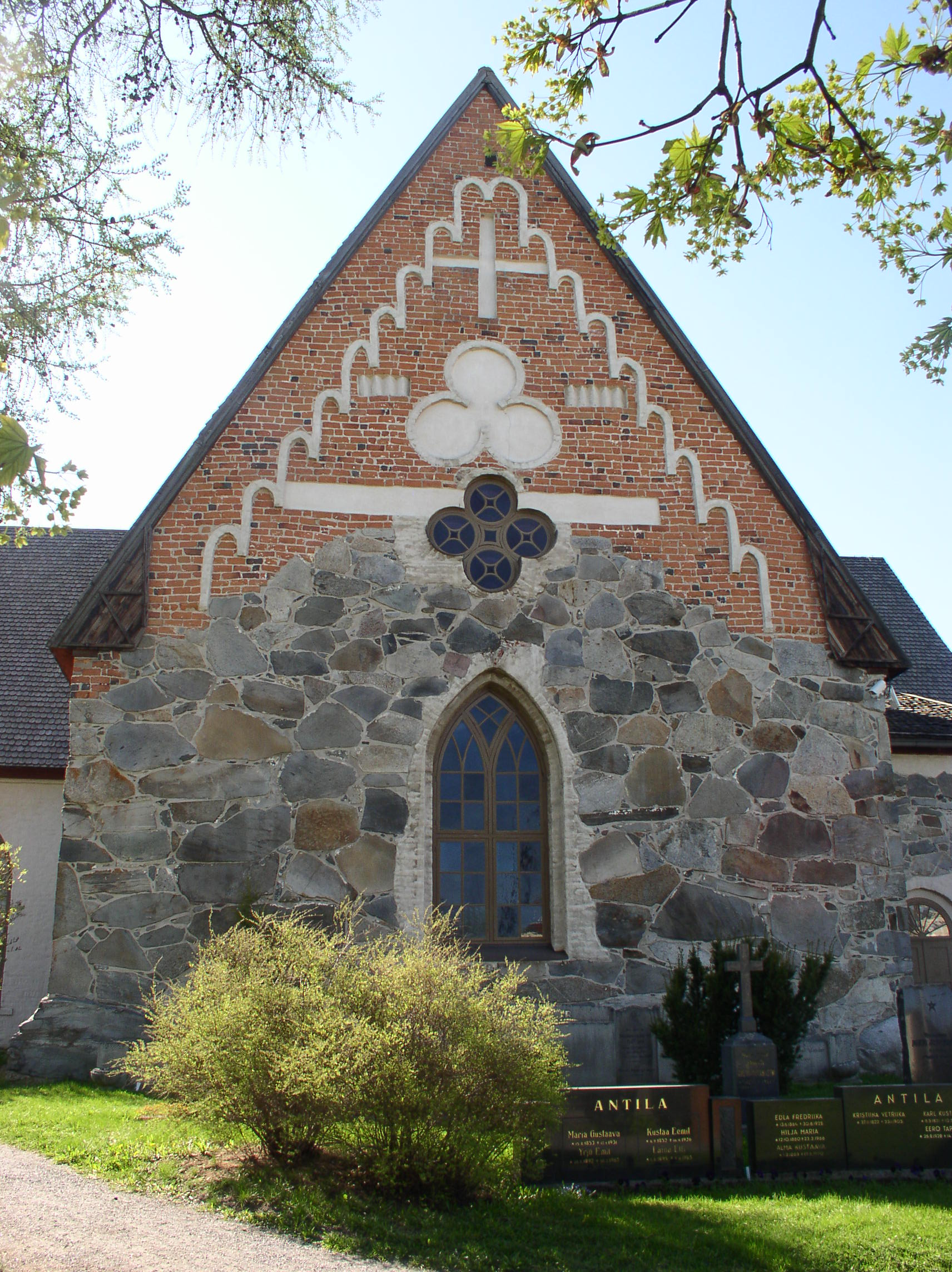 Lempäälä church in Lempäälä, Finland.